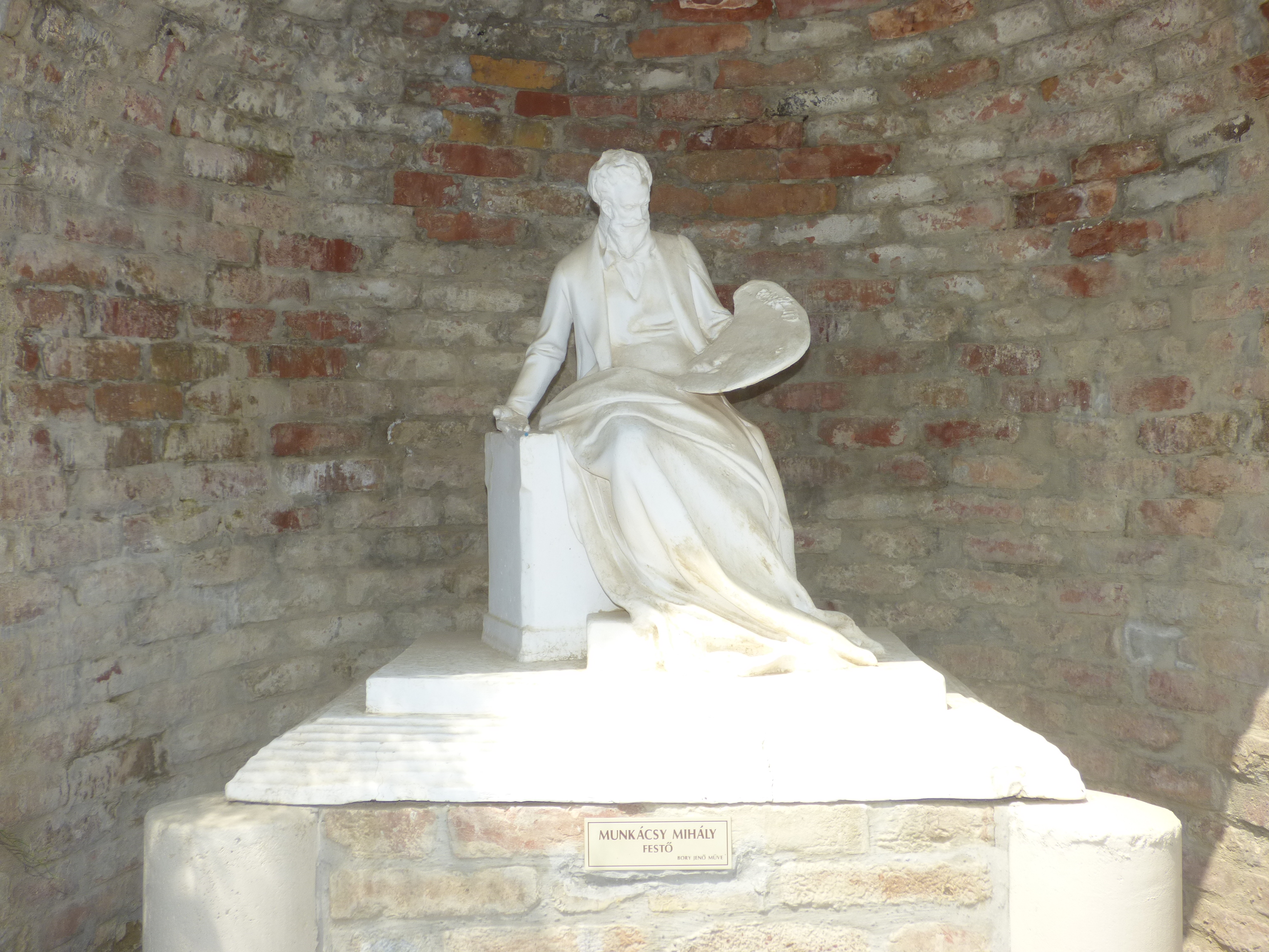 Munkácsy Mihály szobra a Bory-várban